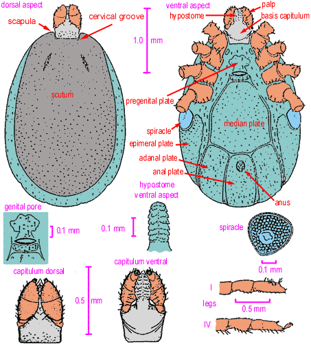 Generic male Ixodid tick anatomy